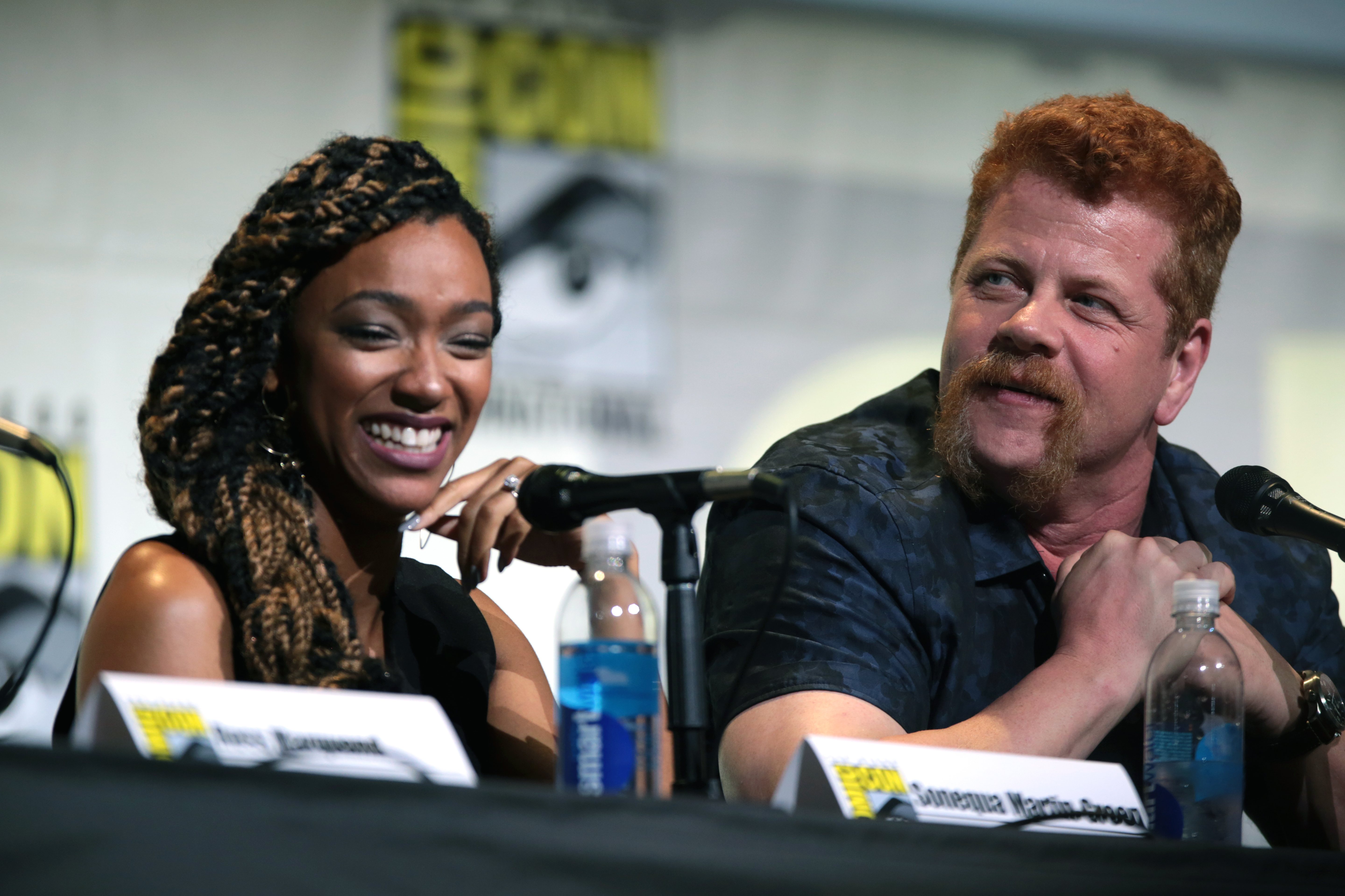 Sonequa Martin-Green and Michael Cudlitz at San Diego Comic Con 2016.